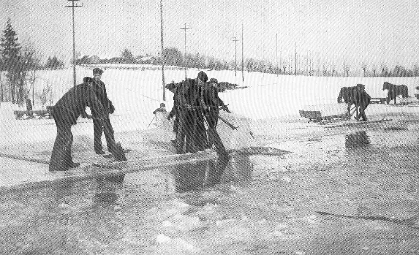 Ice Cutting on Lake Kragero, Norway Subject: Ice industry, Kragero, Lake (Norway) Geographic Subject: Norway--Lake Kragero Tag: Commercial Fisheries